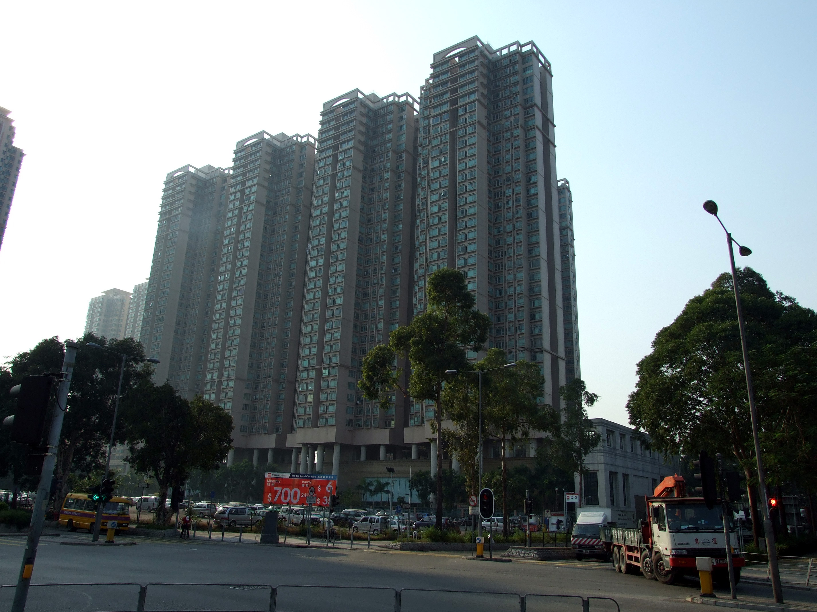 Belair Monte